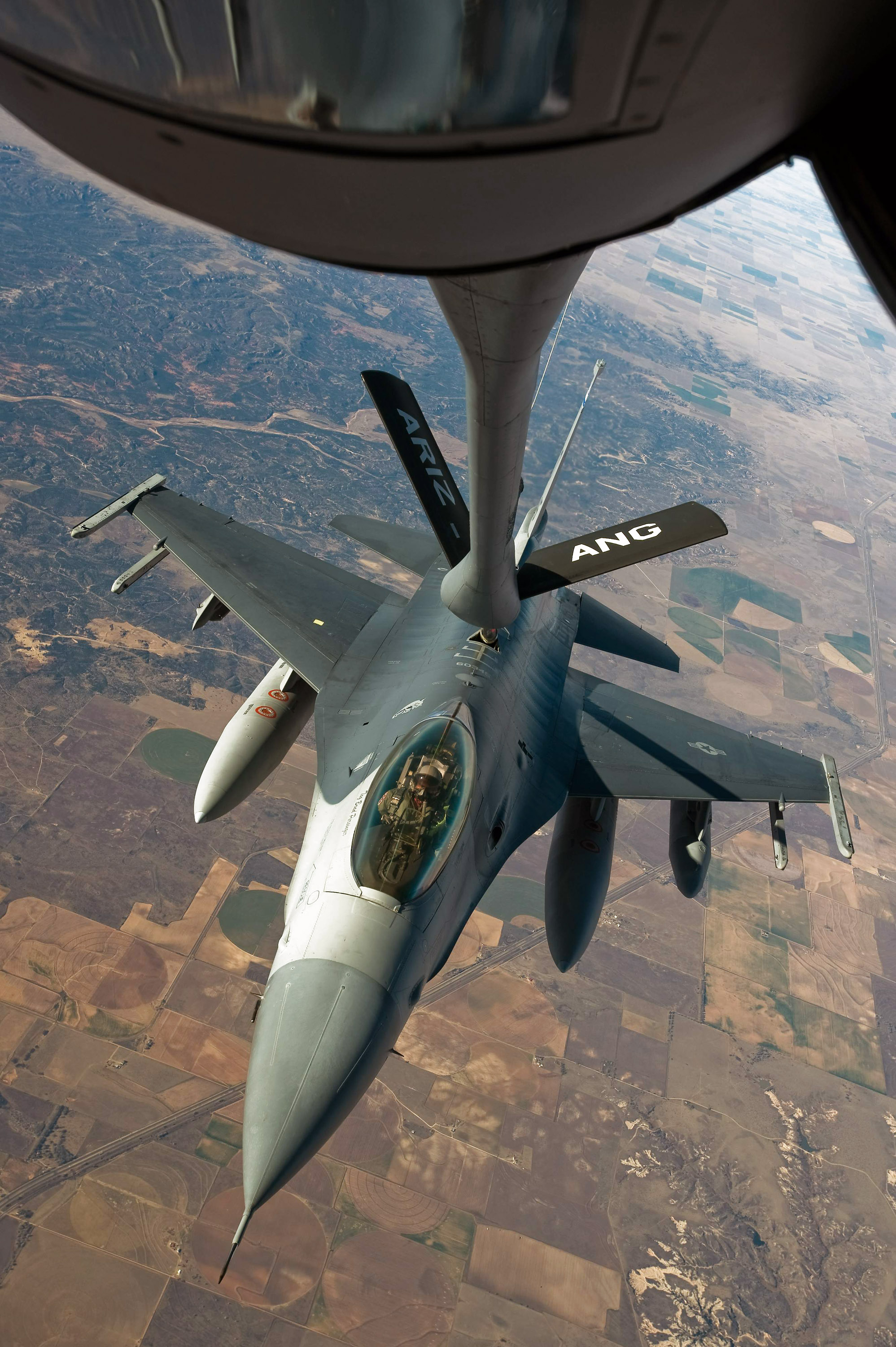 A U.S. Air National Guard General Dynamics F-16C Fighting Falcon receives fuel from a Boeing KC-135R Stratotanker on 1 December 2008 en route to Barksdale Air Force Base, Louisiana (USA), to take part in exercise "Green Flag East". The exercise was a pre-deployment exercise for U.S. Air Force Air Combat Command flying units that performed close-air support and precision-guided munitions delivery. The F-16 was from the 120th Fighter Squadron of the Colorado Air National Guard, the KC-135 from the 197th Air Refueling Squadron, Arizona Air National Guard.